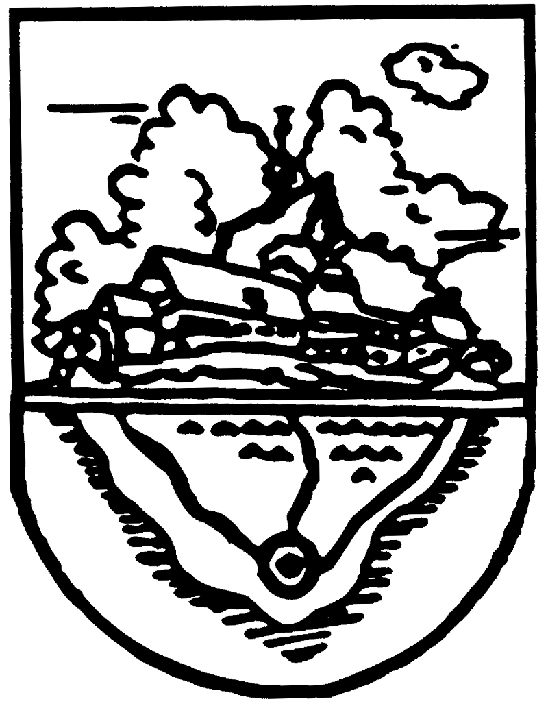 This file depicts the coat of arms of a German Körperschaft des öffentlichen Rechts (corporation governed by public law). According to § 5 Abs. 1 of the German Copyright law, official works like coats of arms are in the public domain. Note: The usage of coats of arms is governed by legal restrictions, independent of the copyright status of the depiction shown here. Coat of arms of Deutschneudorf